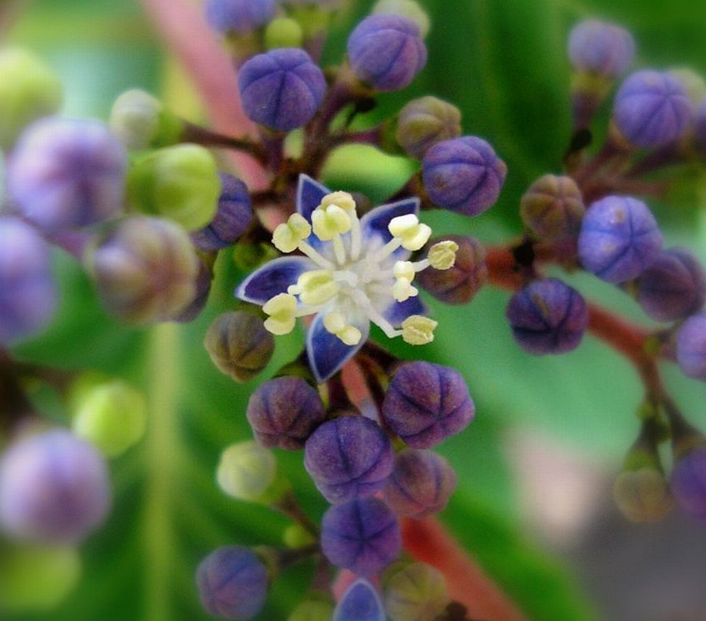 A single open hydrangea flower; unknown cultivar.